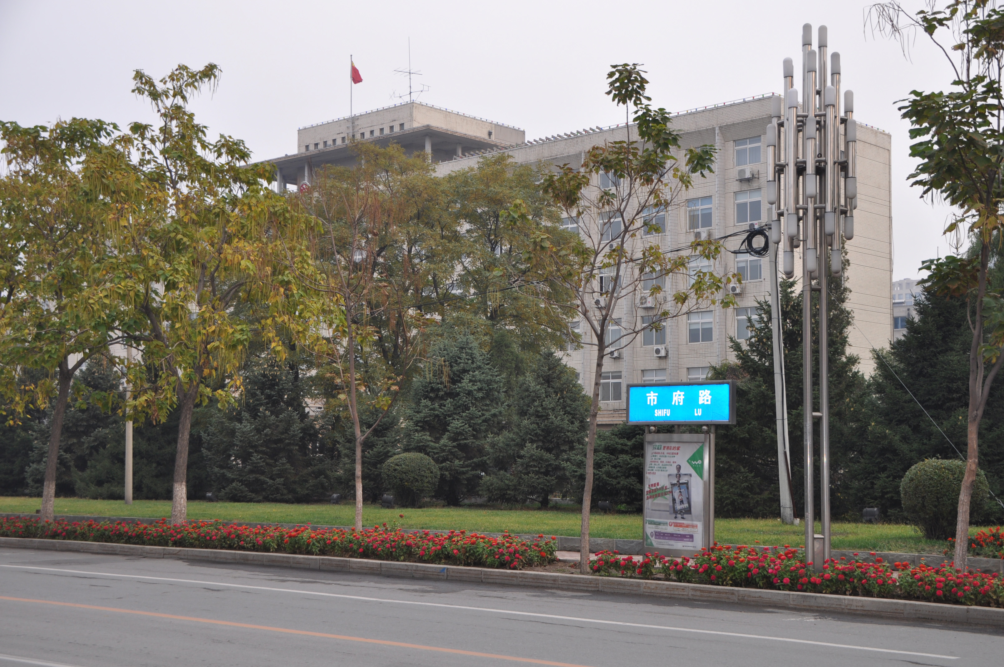 Tieling - Yingzhou District Government (formerly Tieling City Givernment)